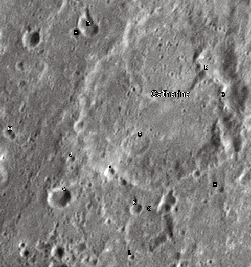 Catharina lunar crater as seen from Earth with satellite craters labeled